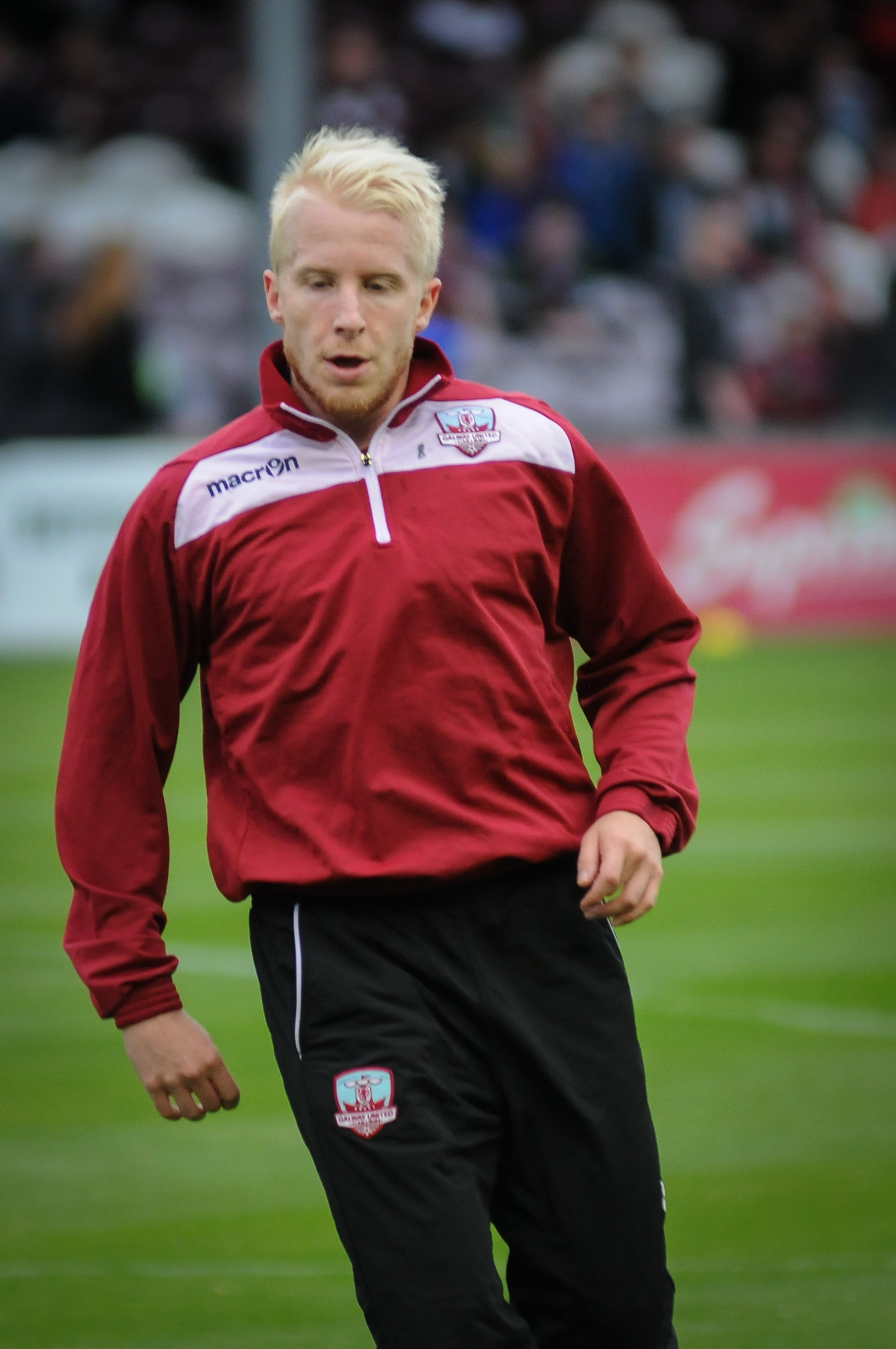 Tomi Saarelma warming up for Galway United in 2015